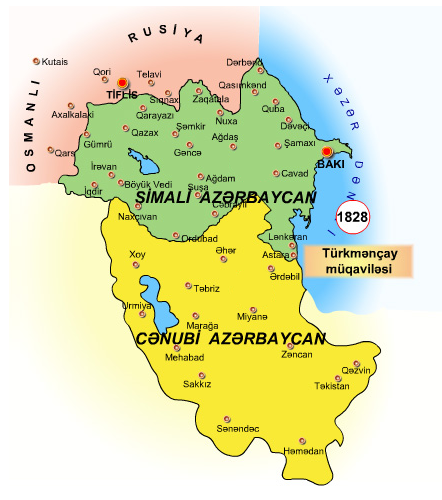 Whole Azerbaijan map